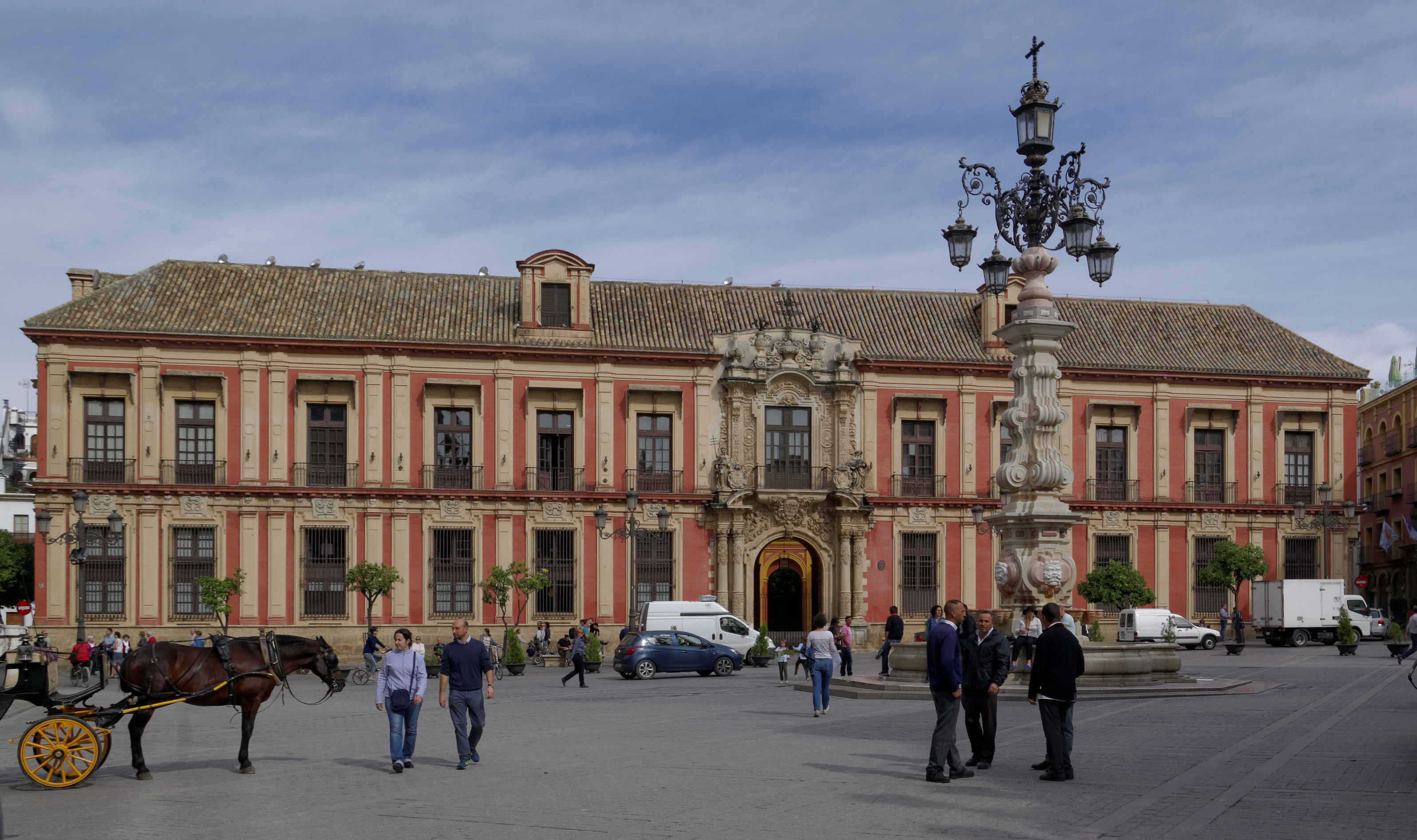 Spain, Sevilla, Palace of the archbishop